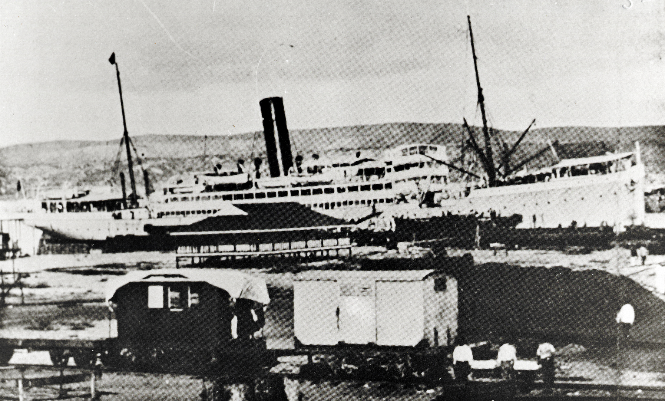 SS Lusitania, Unknown.